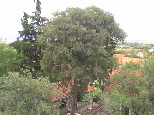 Celtis australis in Kričke, Croatia.